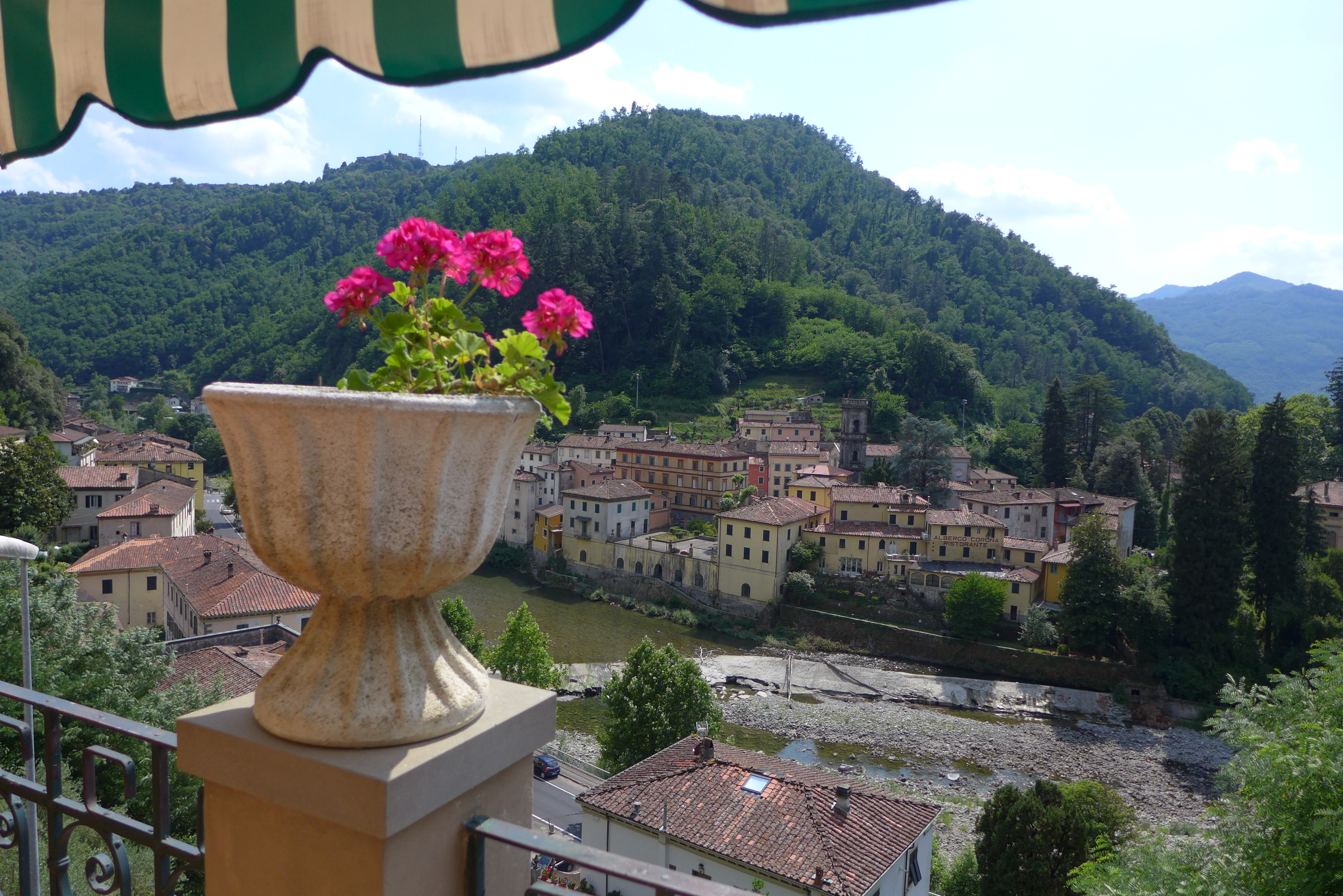 Bagni di Lucca, Tuscany, Italy June 2015